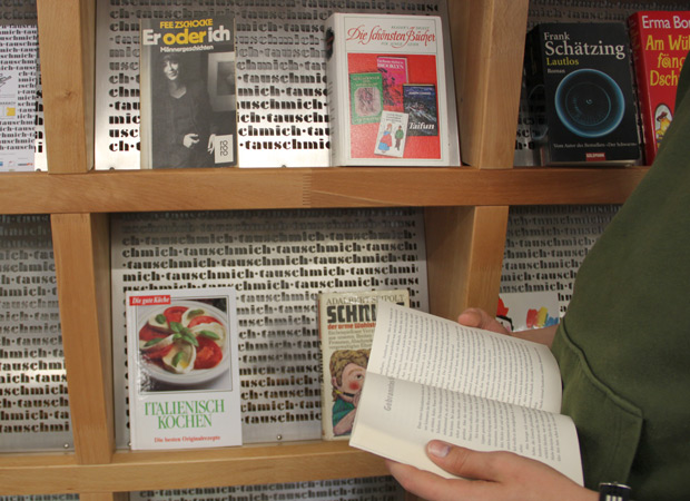 Detail of tauschmich a public book-sharing-shelf in the lobby of Stadtbibliothek Schwabach, Germany